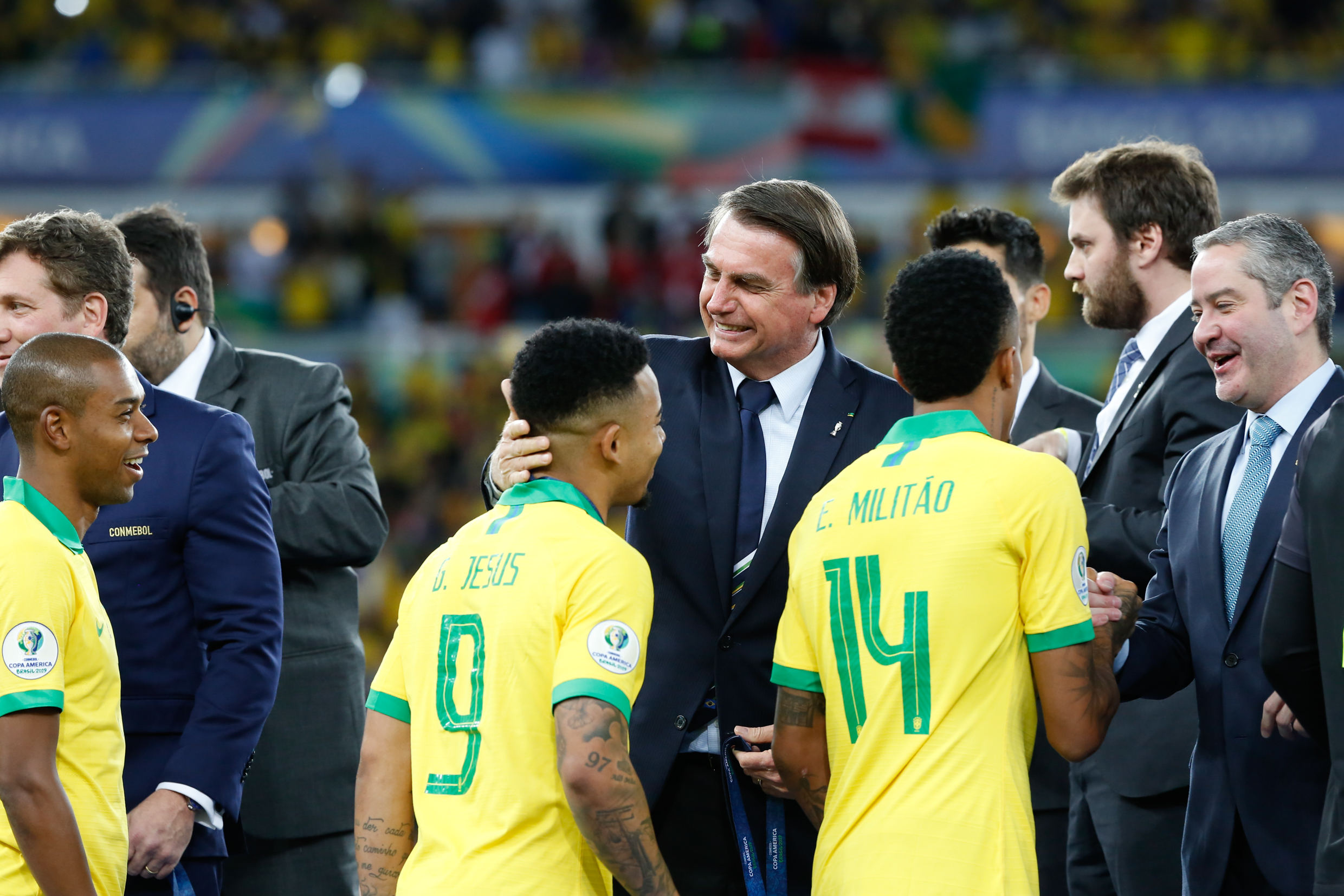 (Rio de Janeiro - RJ, 07/07/2019) Presidente da República, Jair Bolsonaro, e o Presidente da Confederação Sul-Americana de Futebol (CONMEBOL), Alejandro Domínguez, durante entrega da premiação da Copa América 2019. Foto: Carolina Antunes/PR